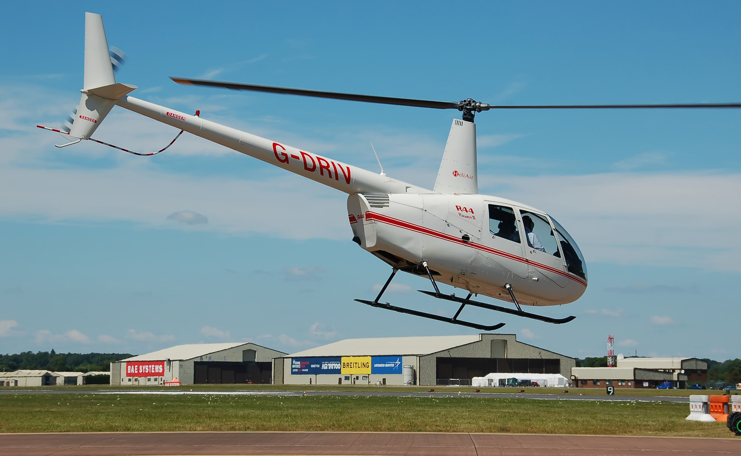 Heli Air Robinson R44 Raven II (G-DRIV) arrives for the 2014 Royal International Air Tattoo, RAF Fairford, Gloucestershire, England.